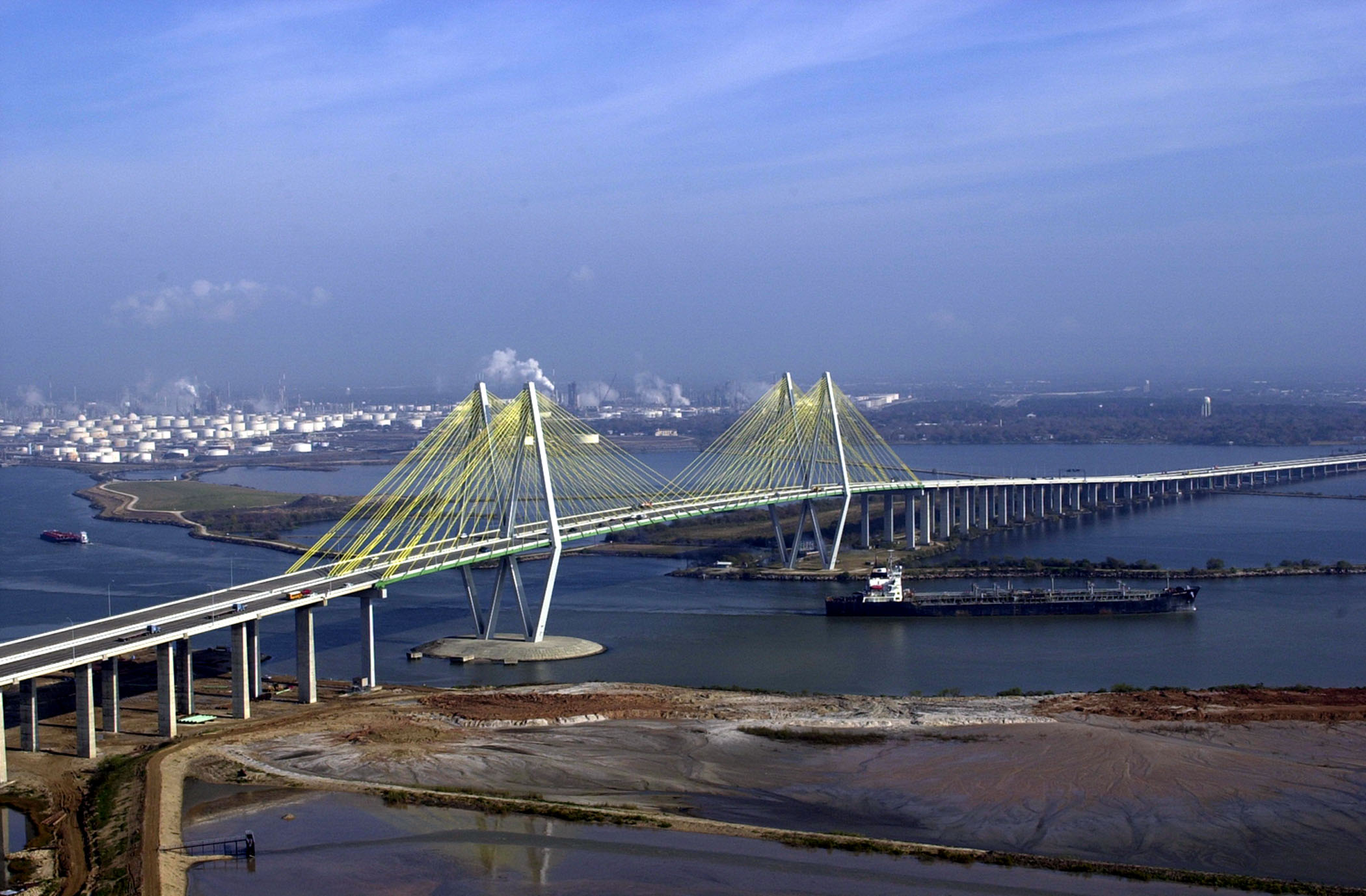 The Fred Hartman Bridge over the Houston Ship Channel, Houston, Texas, USA